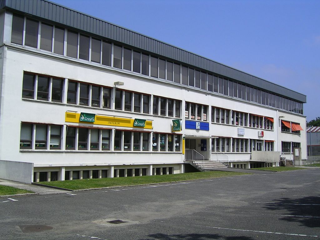 Anpe,Assédic, boulevard Robert Schumann Photo personnelle (own work) de Marianna